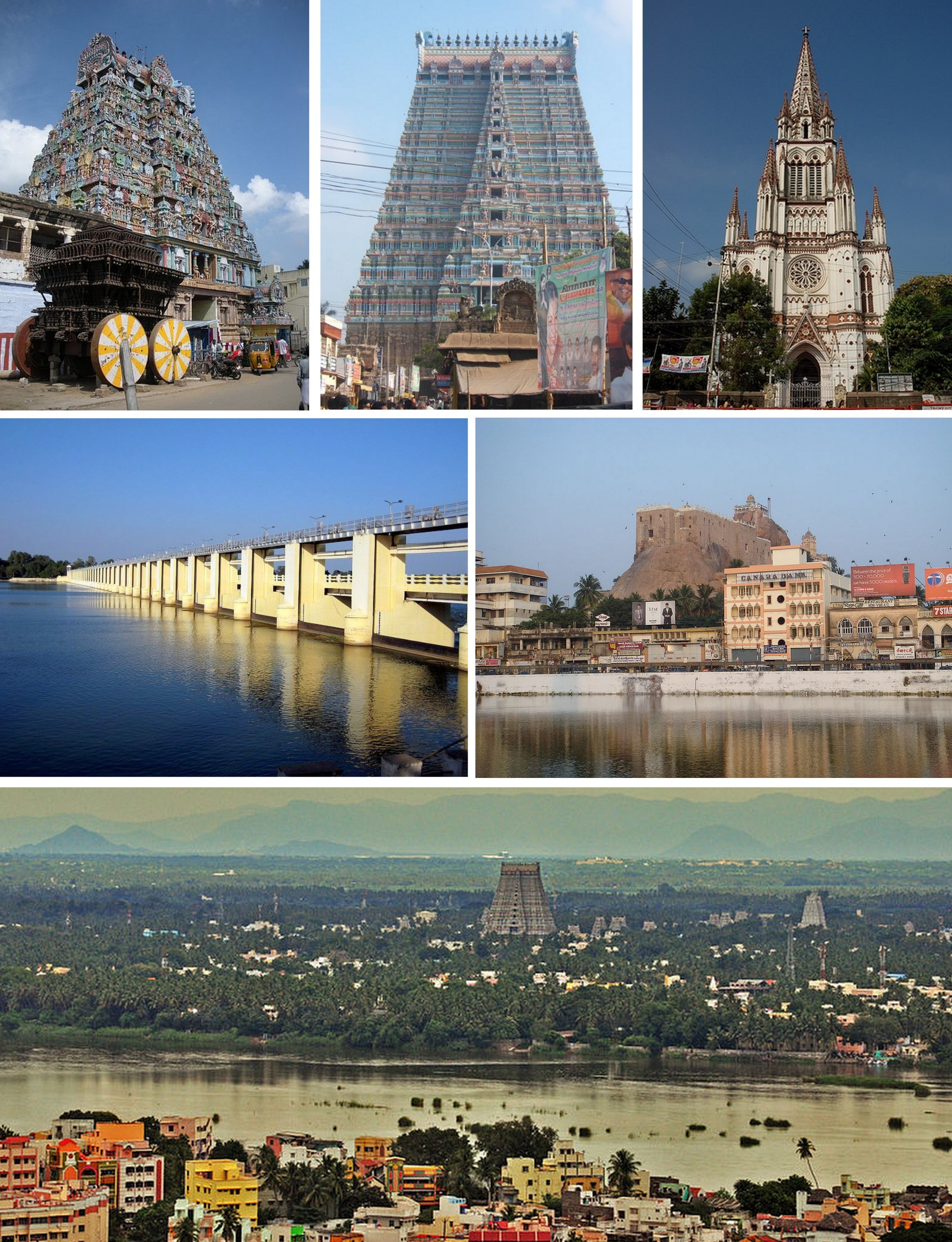 Collage of Jambukeswara temple, Srirangam temple, St. Lourde's church, Rockfort, Srirangam view and Upper Anicut